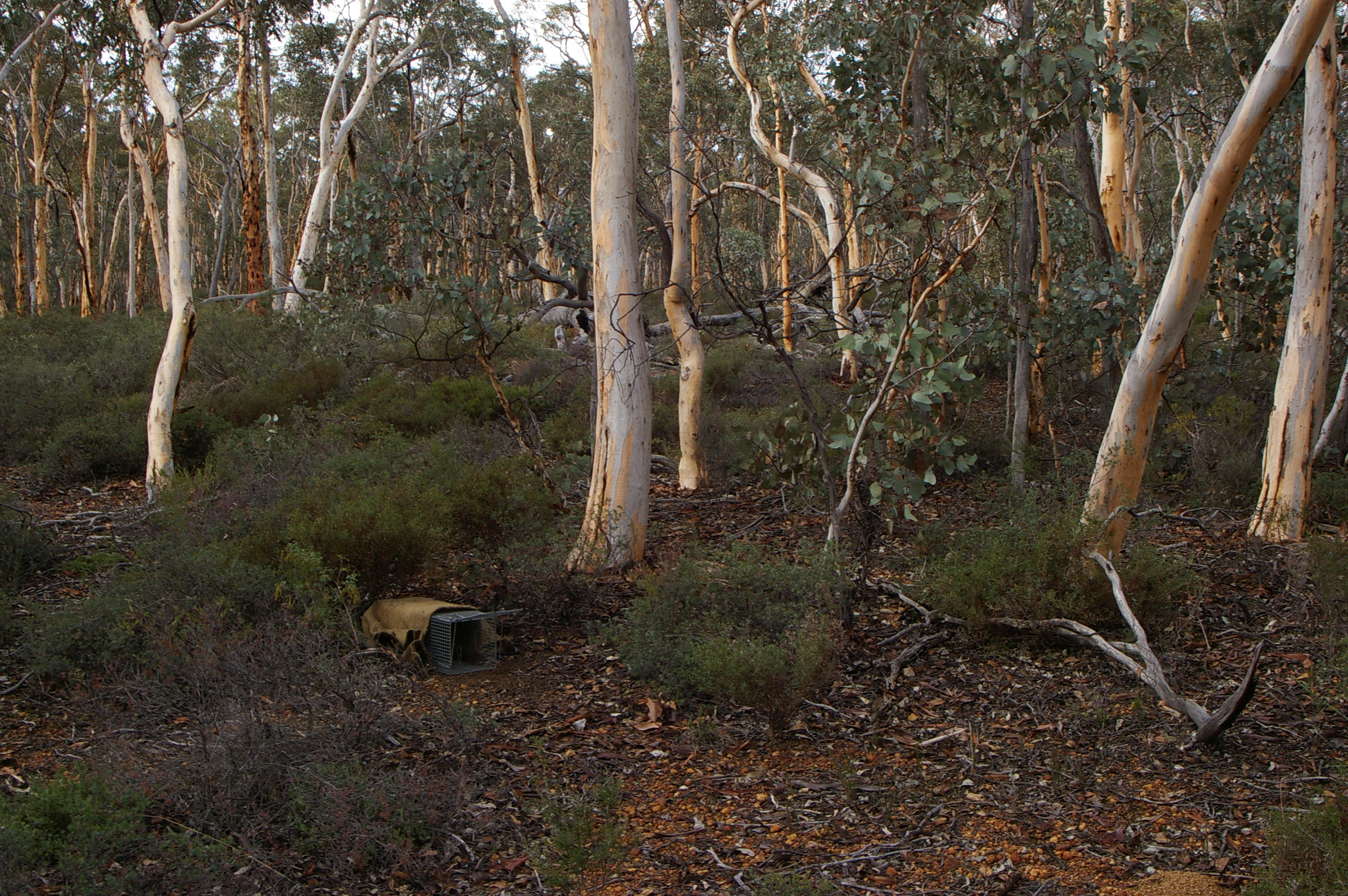 Trap set for a Numbat, the traps dont harm the animals and are cover in hessian to protect them from the elements and predators. They are checked frequently with details of the animals caught recorded. This information helps researchers monitor the populations in the wild.